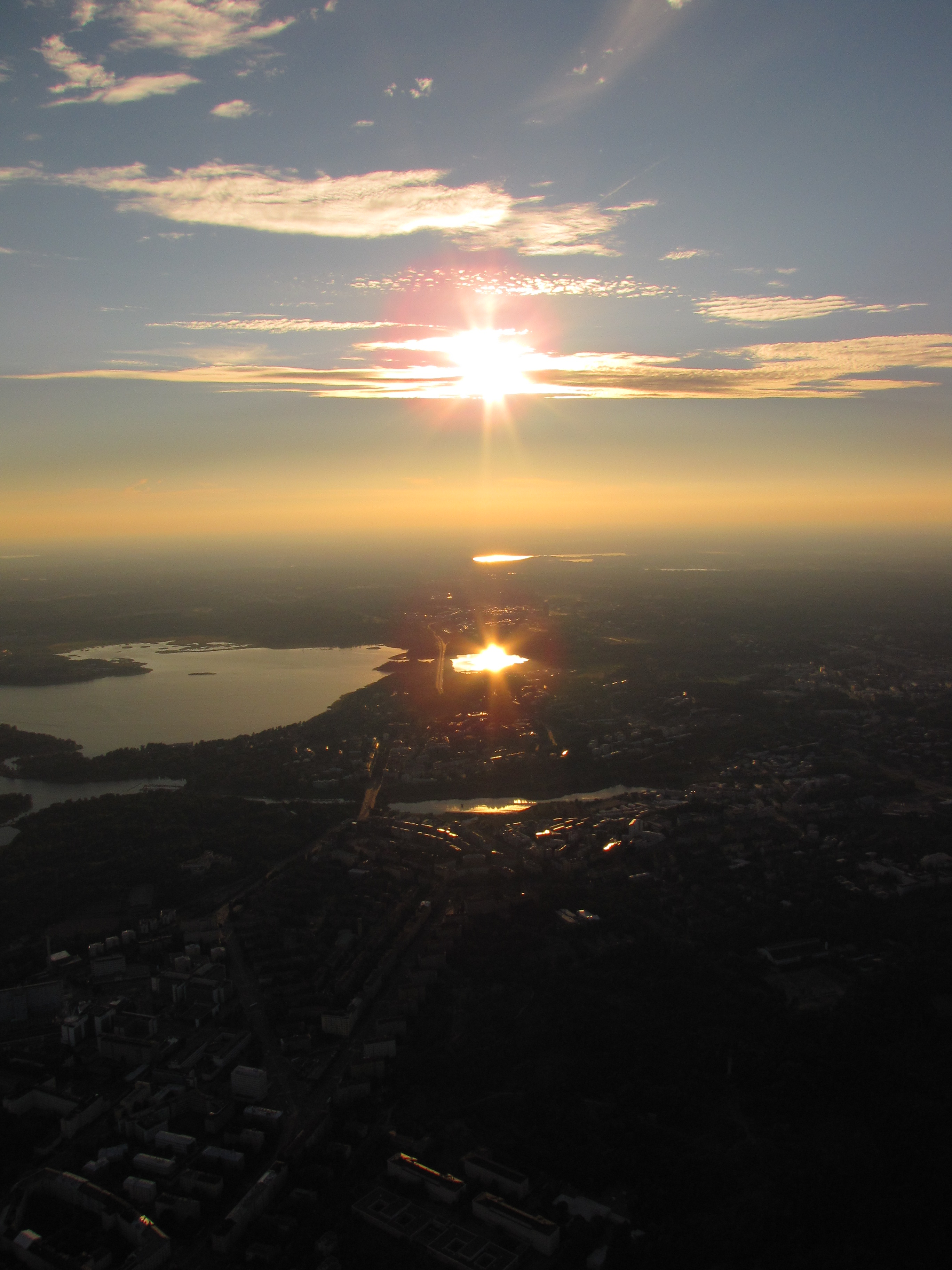 Sunset reflecting from Iso Huopalahti bay. Photographed from a hot air balloon.